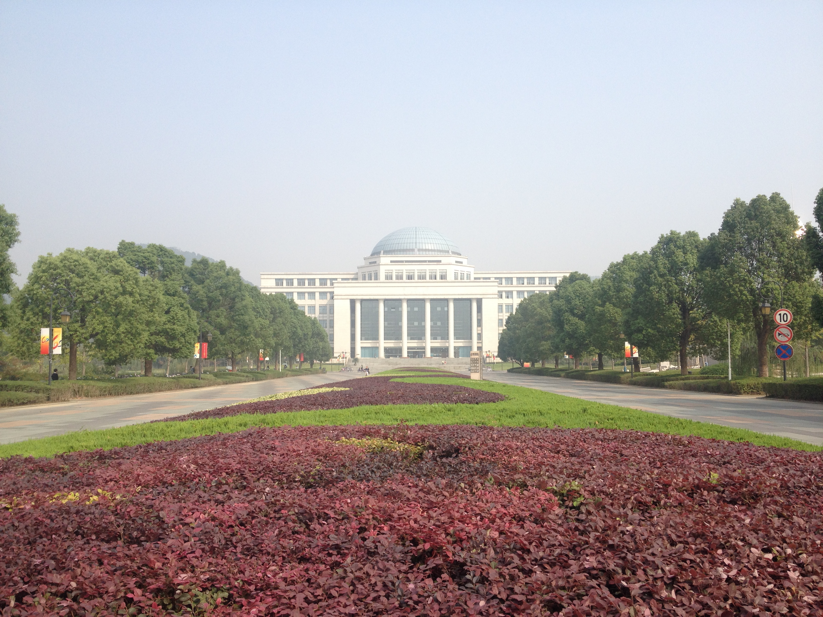 Zhejiang University of Tech library at Hangzhou